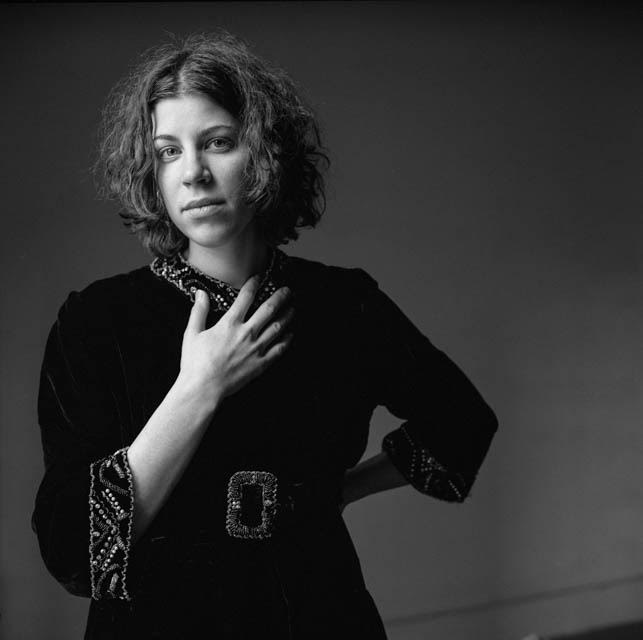 Black and white photograph taken by Michael Wilson. Photo shoot in Cincinnati, Ohio, 2001.